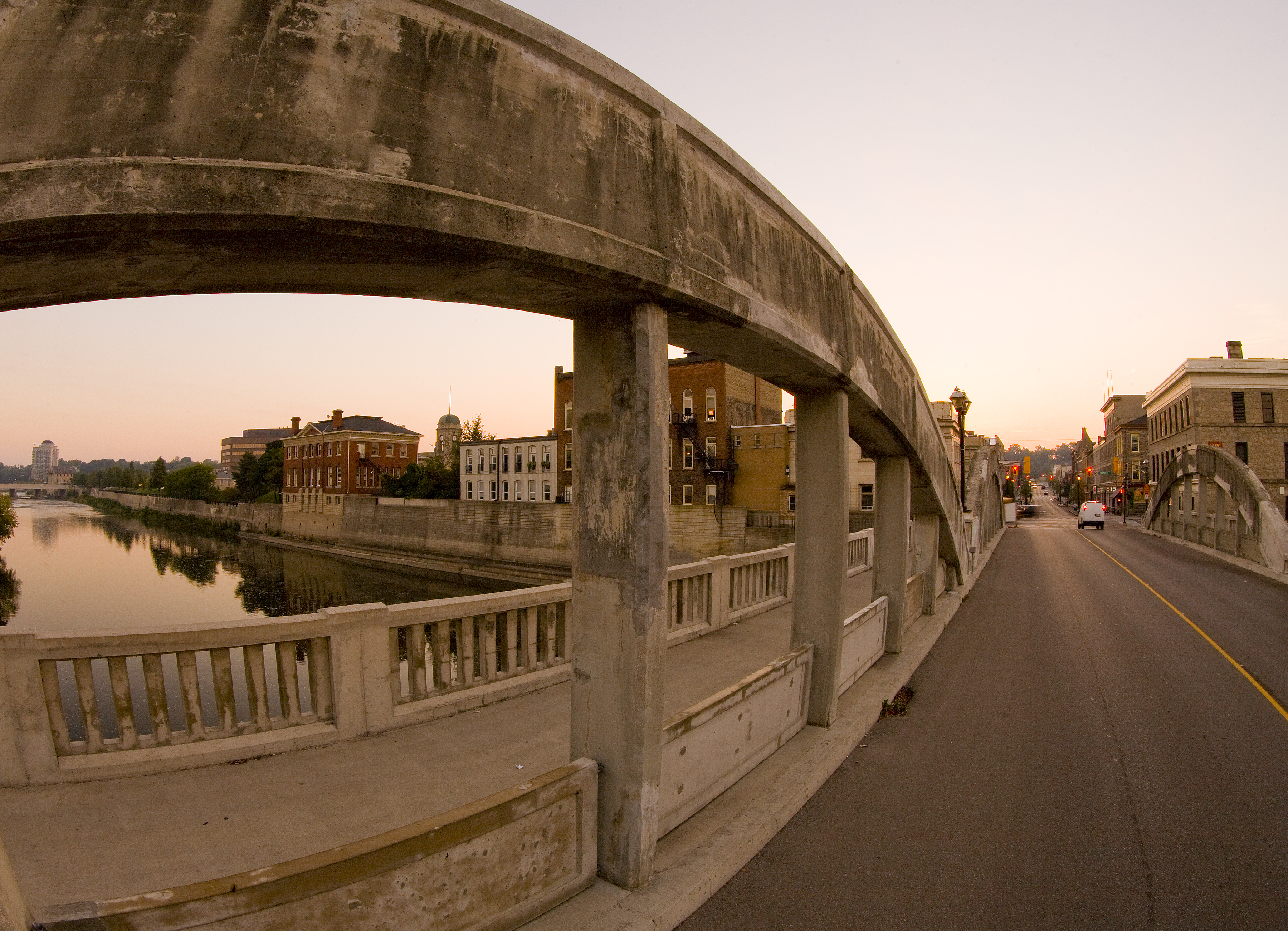 Built in 1931, the Cambridge Main Street Bridge is located in the historic centre of the former City of Galt and spans the Grand River, a Canadian Heritage River. It is part of a group of four multiple-span concrete bow string arch bridges spanning the Grand River that were erected in the same time period.